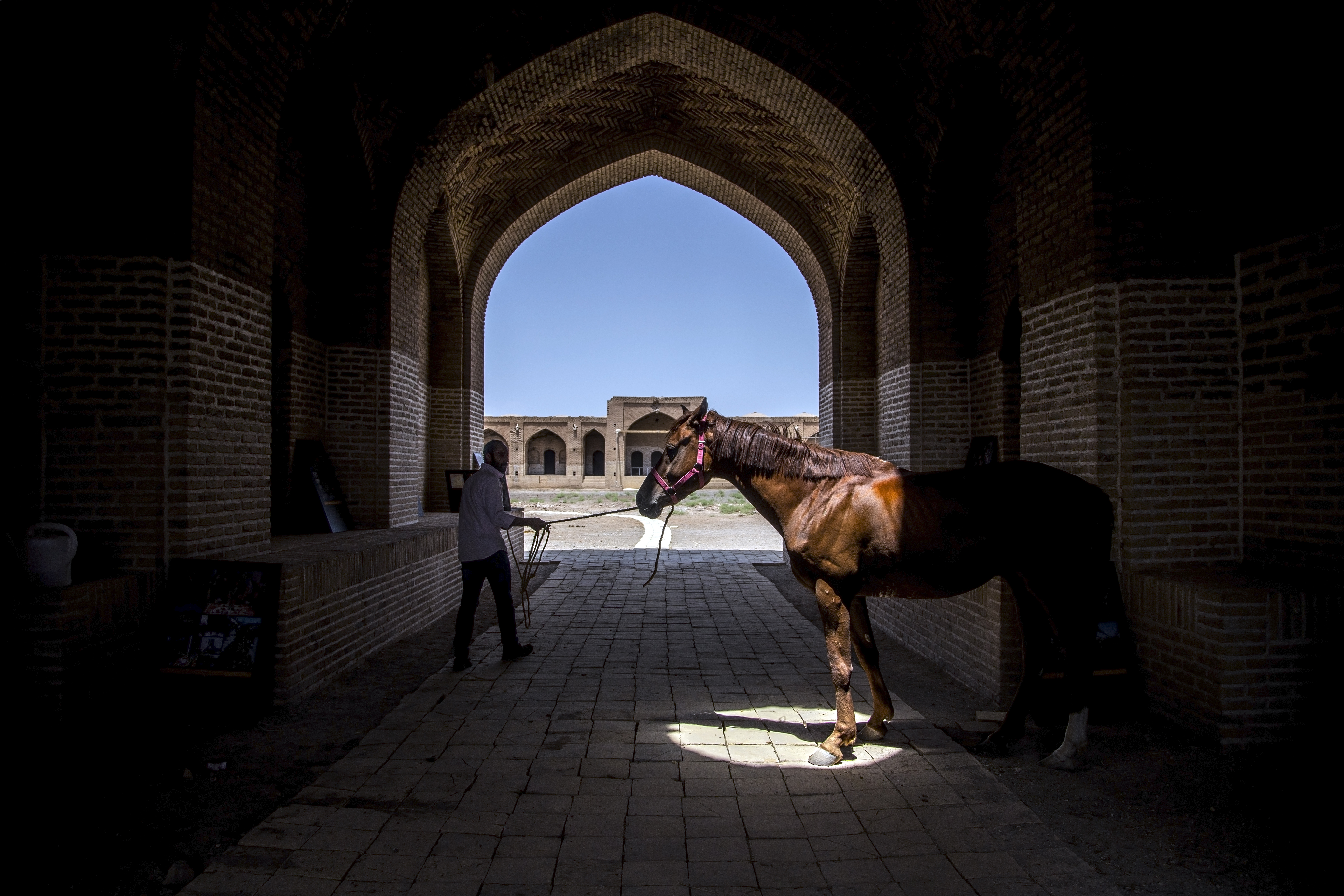 Deir-e Gachin Caravansarai is one of the greatest caravansarais of Iran which is located in the center of Kavir National Park. Its unique qualities is the reason it is called “Mother of Iranian Caravansarais”. It is located in the Central District of Qom County, 80 kilometers north-east of Qom (60 kilometers into Garmsar Freeway) and 35 kilometers south-west of Varamin. This monument was registered in Iran's National Heritage List on September 23, 2003. The structure of this caravanserai belongs to Sasanian era, and restorations took place in Seljuk, Safavid and Qajar eras. Its current form belongs to Safavid era. This caravanserai is situated on the ancient rout from Ray to Isfahan. The structure of this caravansarai is in Seljuki four-iwan form and is 12000 square meters wide. The interior spaces of the caravansarai include human, livestock, service and convenience, and security spaces. There are four circular towers at the corners and two half-oval towers at both sides of the main gate which is situated in the middle of the southern wall. Also, there are 44 rooms or chambers, 4 big halls (stables), mosque, private shabestan, fodder barn, gristmill, bathroom and toilet. The materials used in Deir-e Gachin are brick, lime, adobe and plaster. The mosque of the caravanserai was probably built in the place of the Sasanian fire temple and there are no decorations in it. There are a number of structures around the caravanserai as a collection including two Ab anbars behind the western side and close to the bathroom, a brick furnace, a dam, and a graveyard in the south-western side in which the graves are covered with bricks and that goes back to the Islamic era. There is a brick-clay-made structure in the form of a fort 500 meters east of the caravanserai which has only one entrance gate and its structure goes back to the Qajar era.